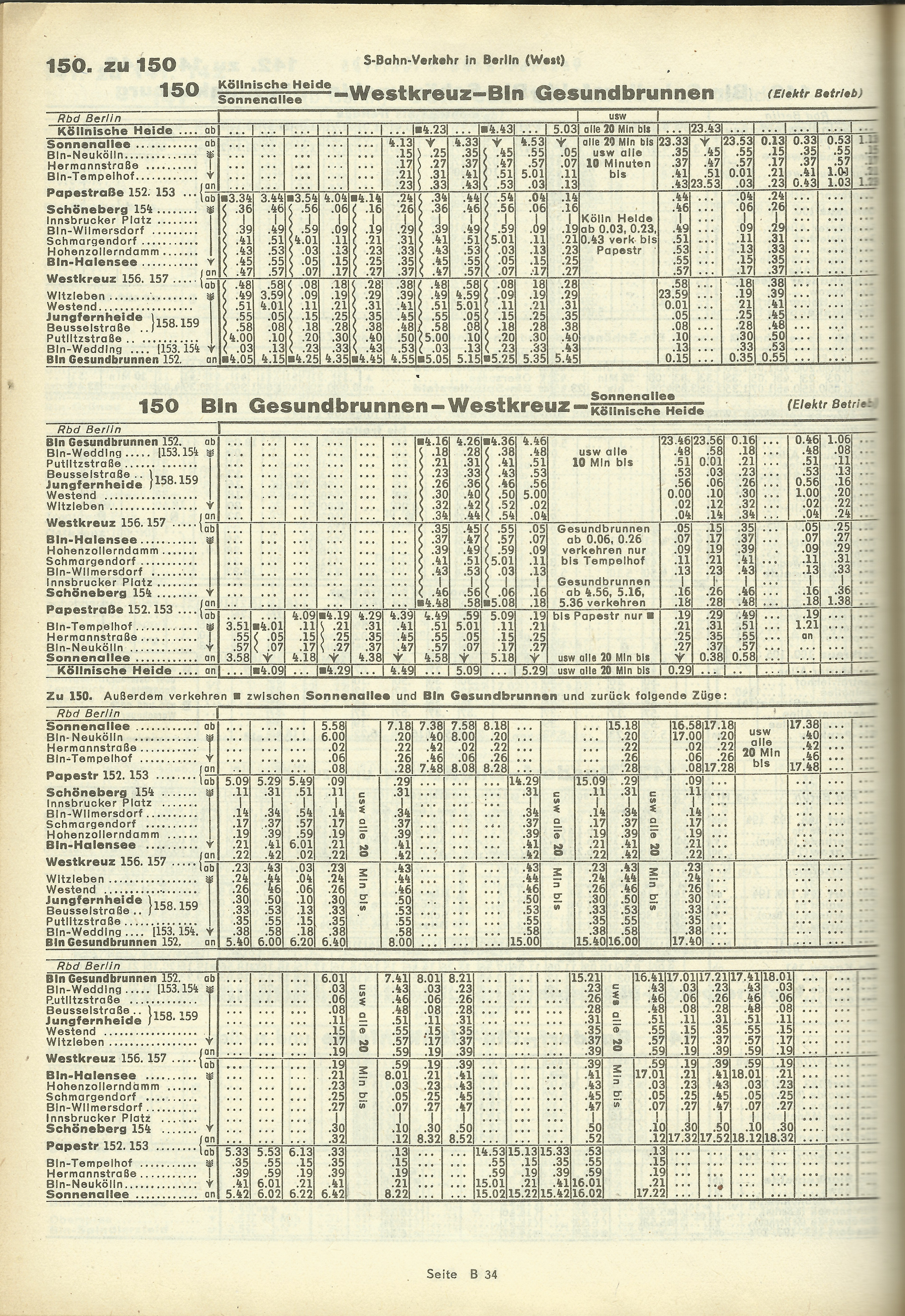 East German time table route 150: the circular S-Bahn service in West Berlin